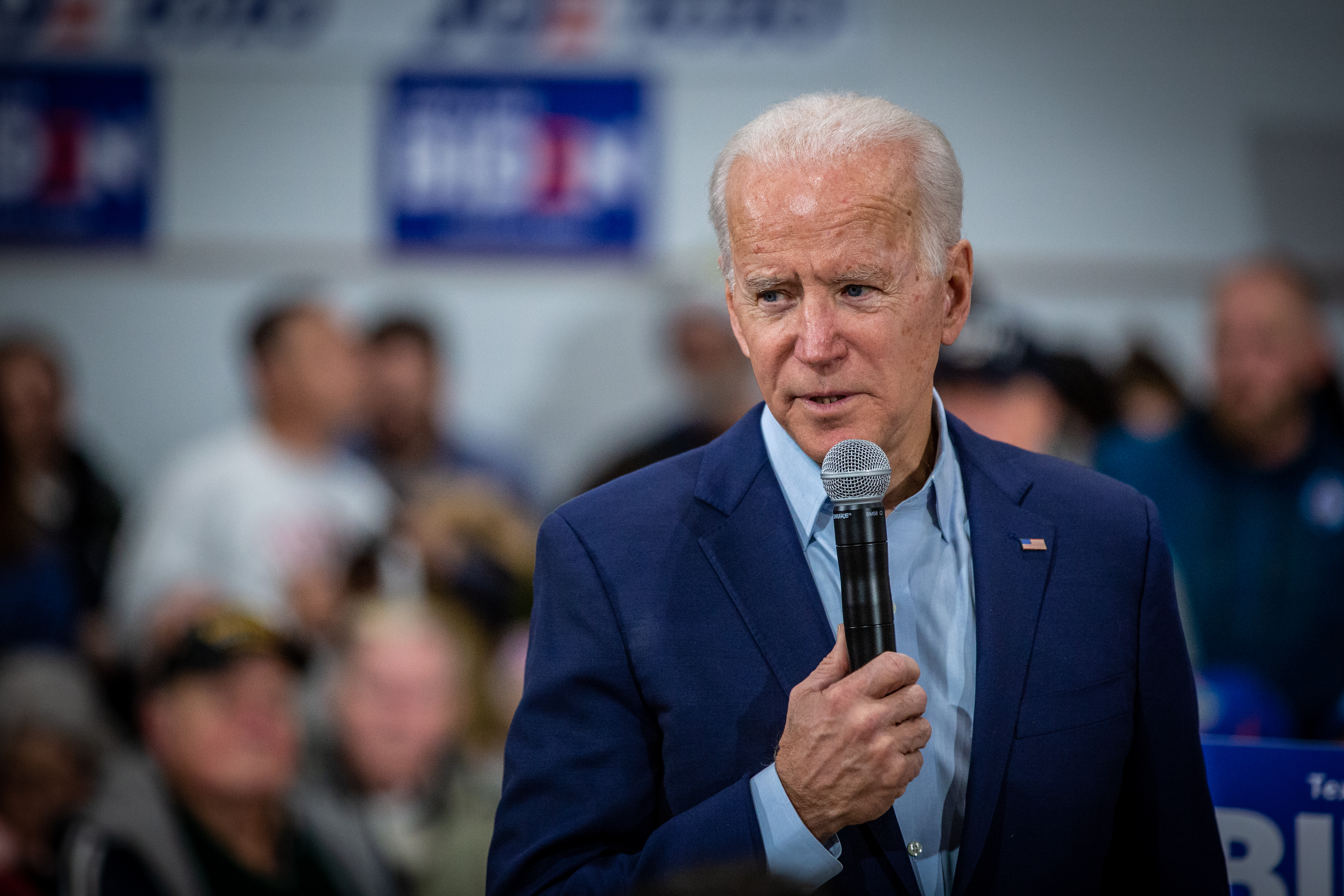 Vice President Joe Biden holds an event with voters in the gymnasium at McKinley Elementary School in Des Moines, where he addressed a number of issues including the recent escalation with Iran. Iowa member of Congress Abby Finkenauer was also on hand to announce her endorsement of Biden.